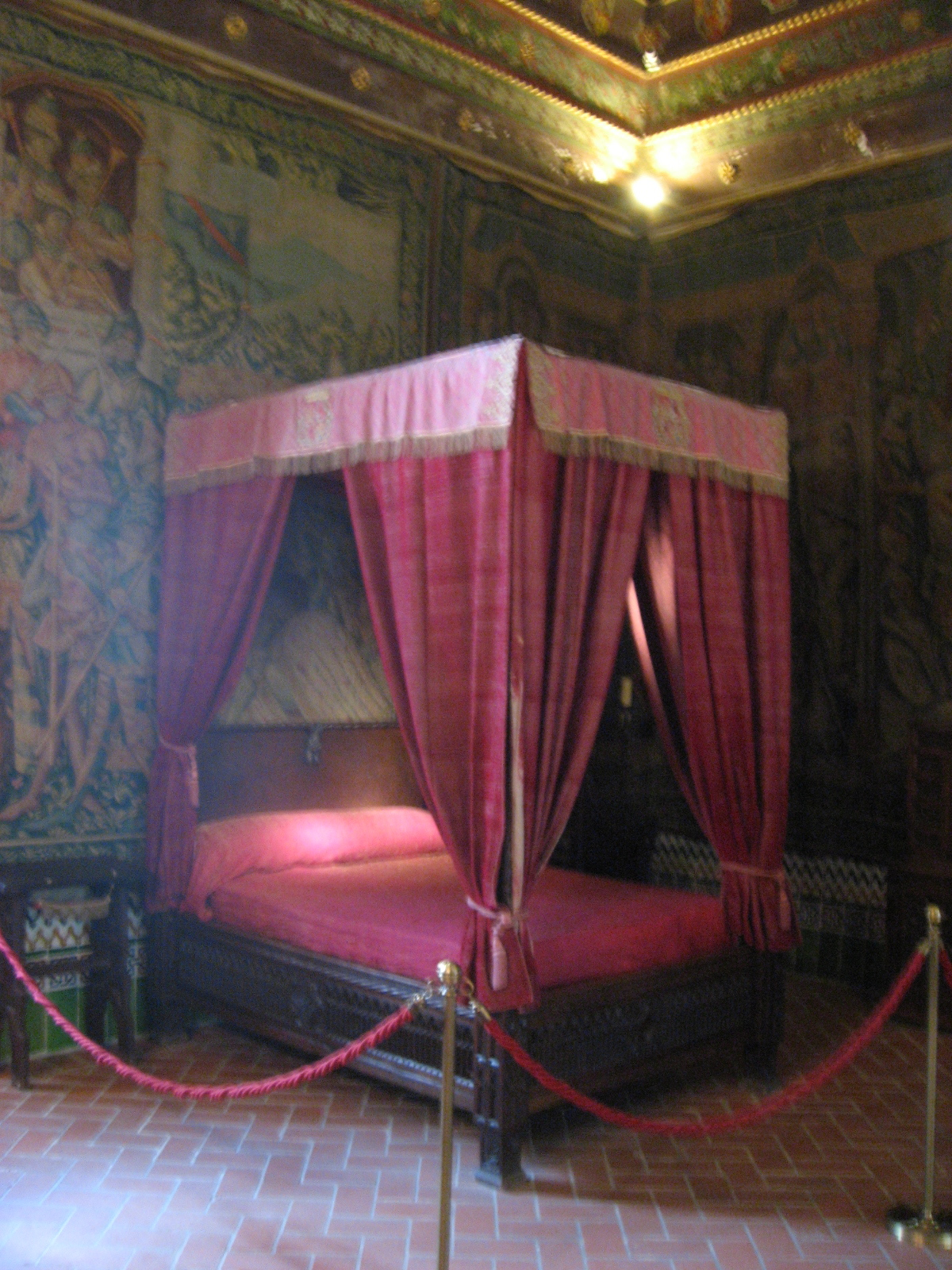 Royal Chamber in the Alcázar of Segovia